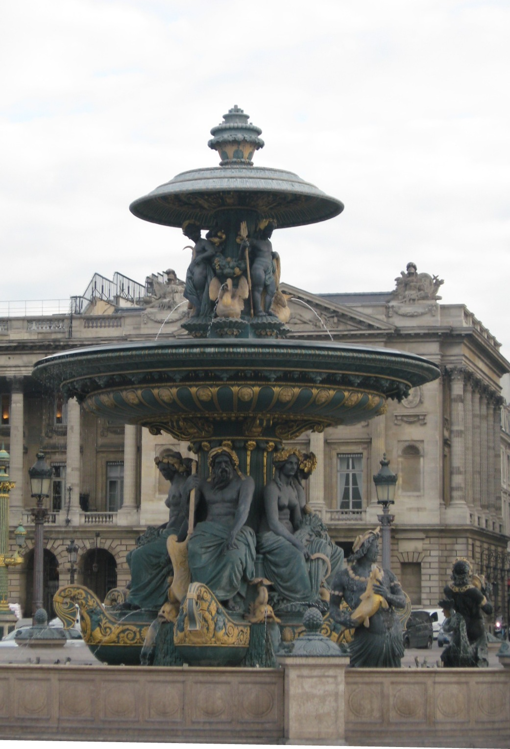 Fontaine on the Place De La Concorde, Paris.